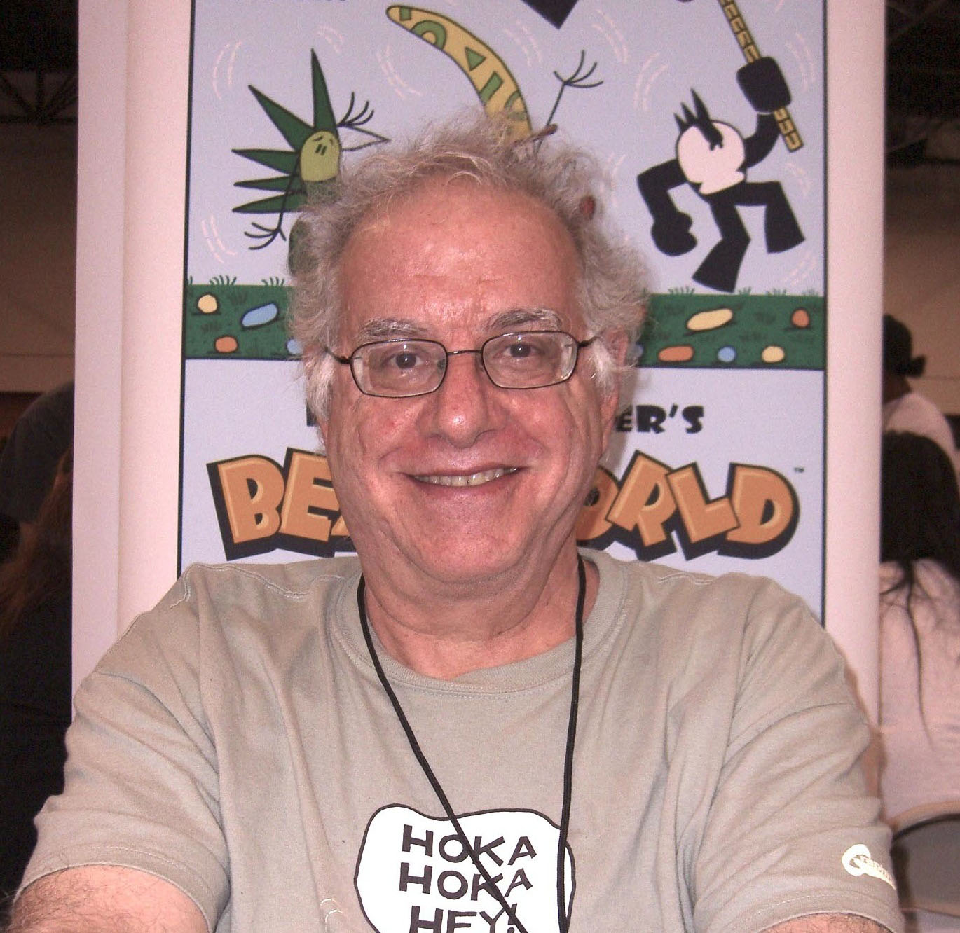 Comic book creator Larry Marder, at the New York Comic Convention in Manhattan, October 10, 2010. Photo by Luigi Novi. This photo may be used, modified and published for any purpose, only if a easily visible credit to the photographer is placed near the photo in each instance in which it is used. (See licensing information below.) Publication of this photo without this proper attribution constitute copyright infringement. For more information on my photos, you can contact me here.